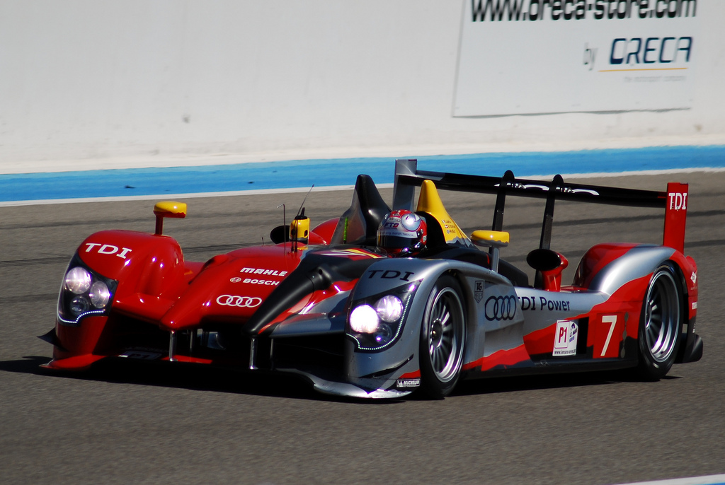 The #7 Audi R15 TDI Plus of Audi Sport Team Joest driven by Rinaldo Capello and Allan McNish at 8 heures du Castellet 2010